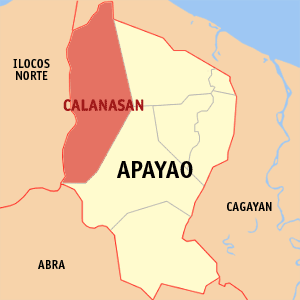 Map of Apayao showing the location of Calanasan